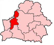 Novogrudok Eparchy of Russian Orthodox Chirch